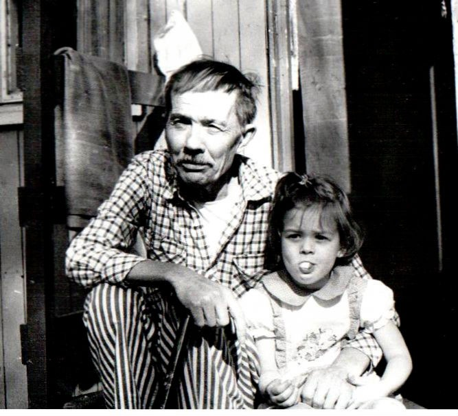 BulushevDR